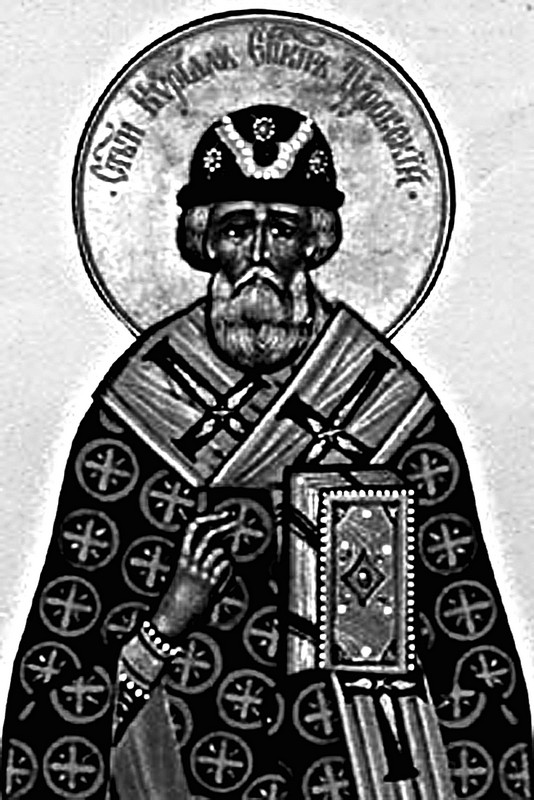 Cyril of Turov Russian Saint and writer of XII century